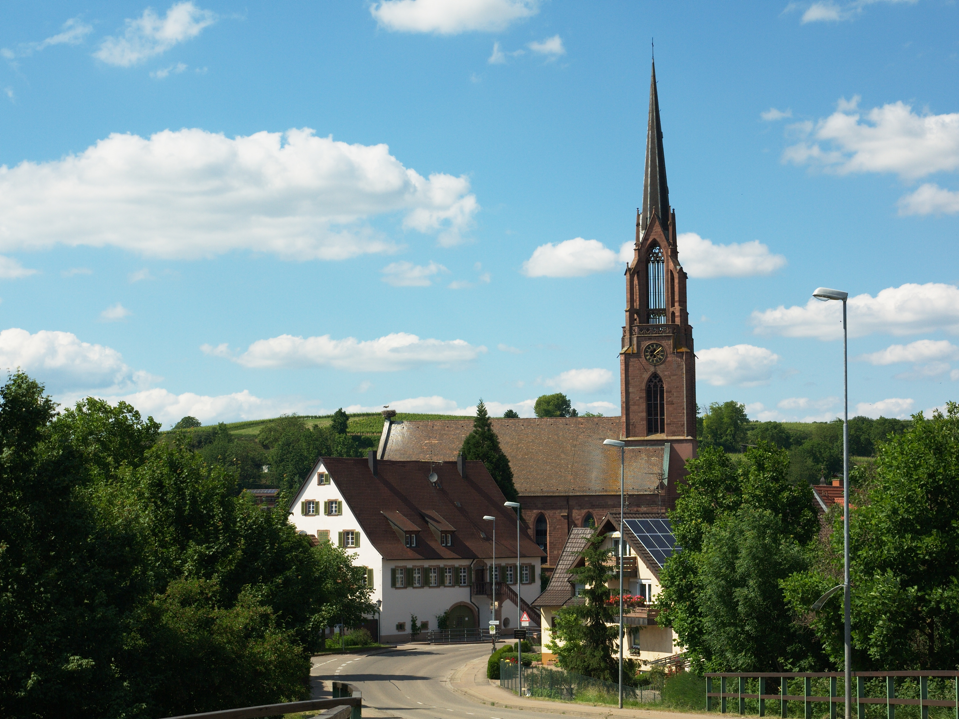 Evangelic church with manse in Koendringen